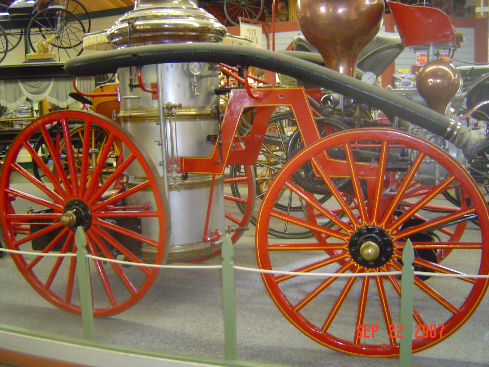 Nineteenth-century steam fire engine on Mackinaw Island